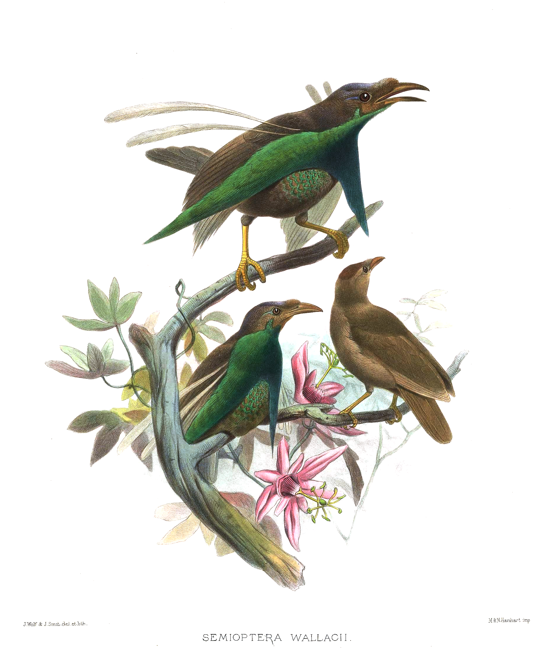 Drawing of 1873